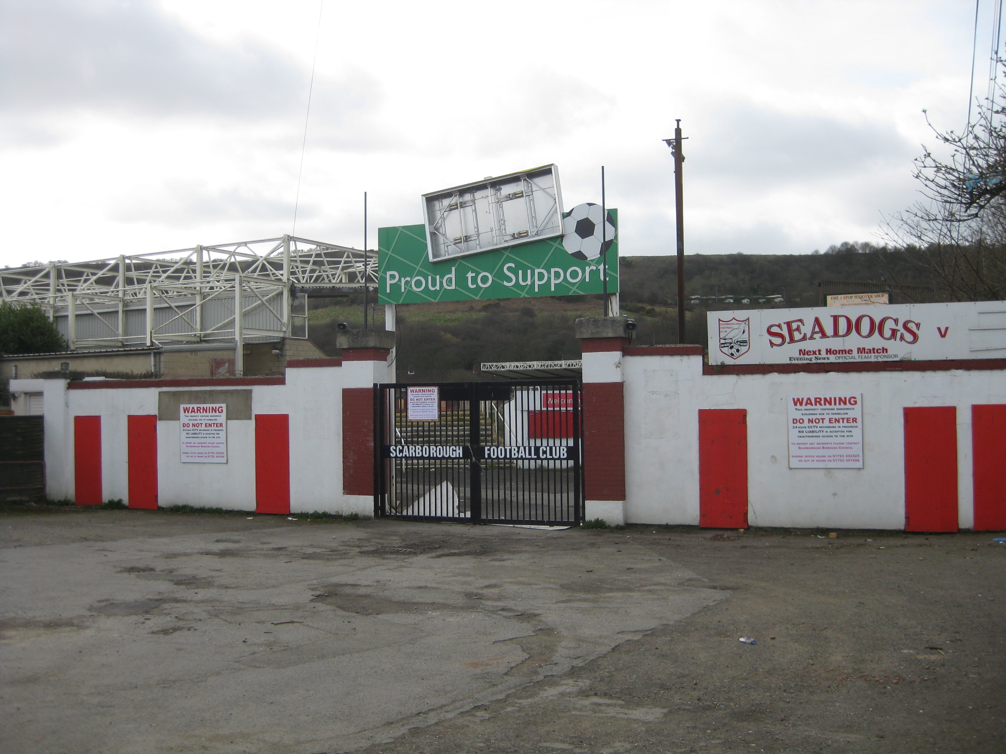 Gates to the abandoned McCain stadium.